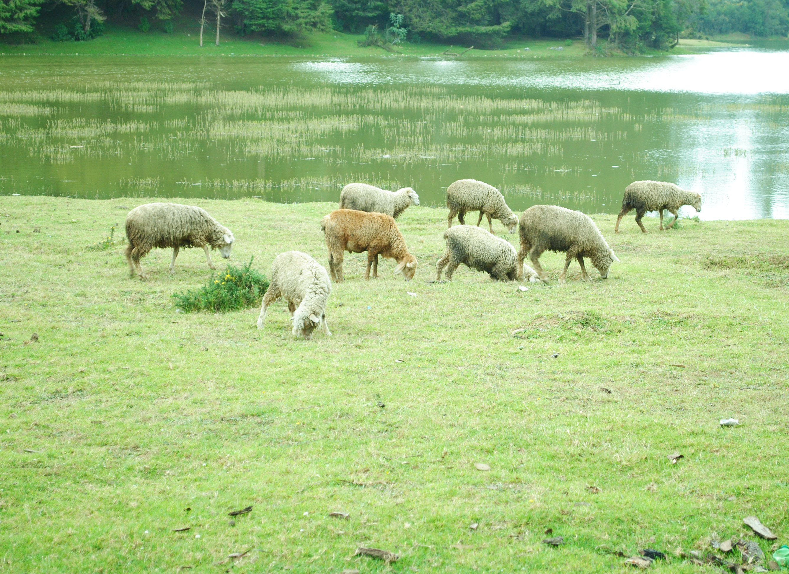 sheep's grazing in ooty lake side as seen by irvin calicut in 2010 January on a perfect spring